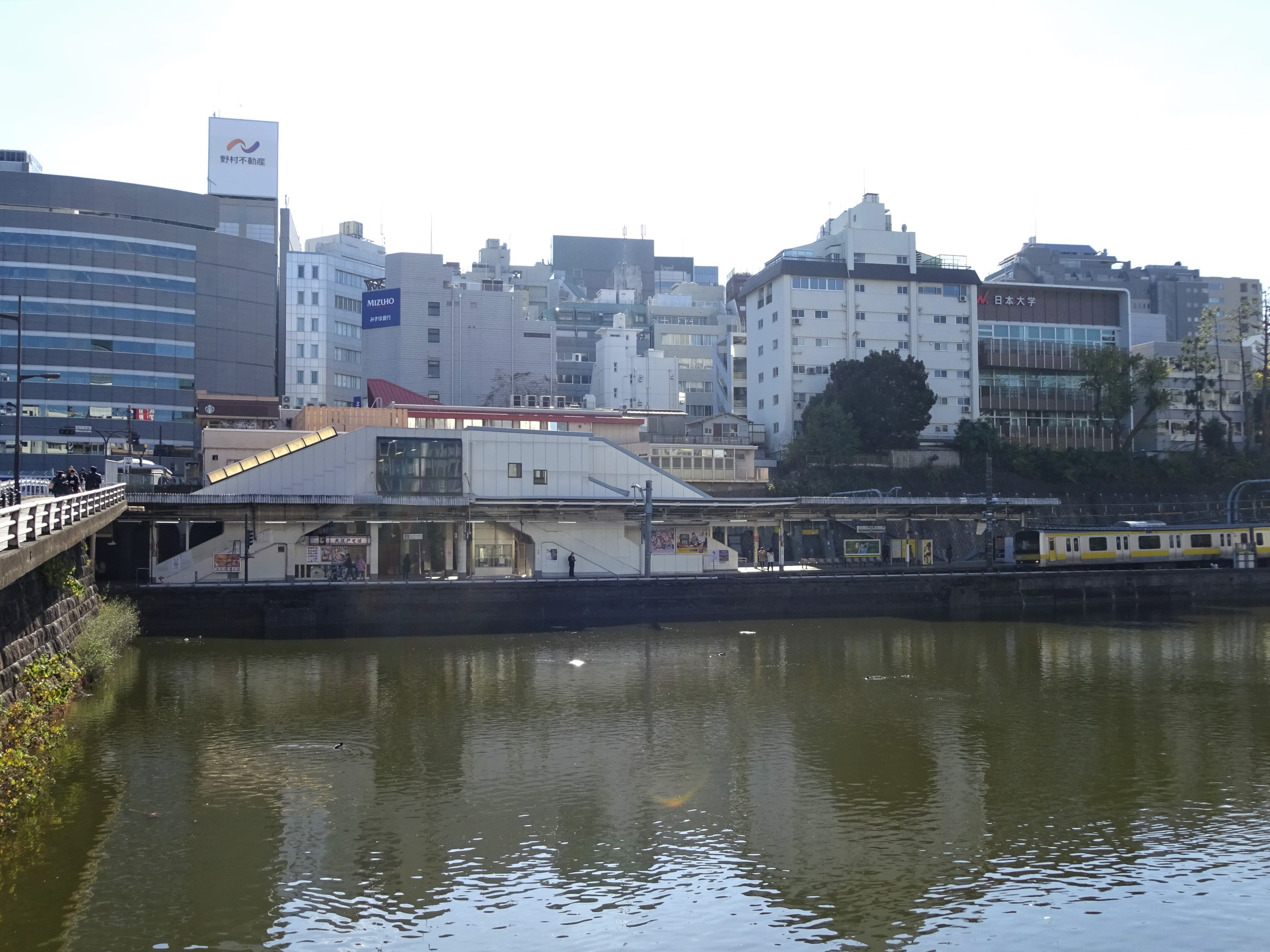 Ichigaya Station